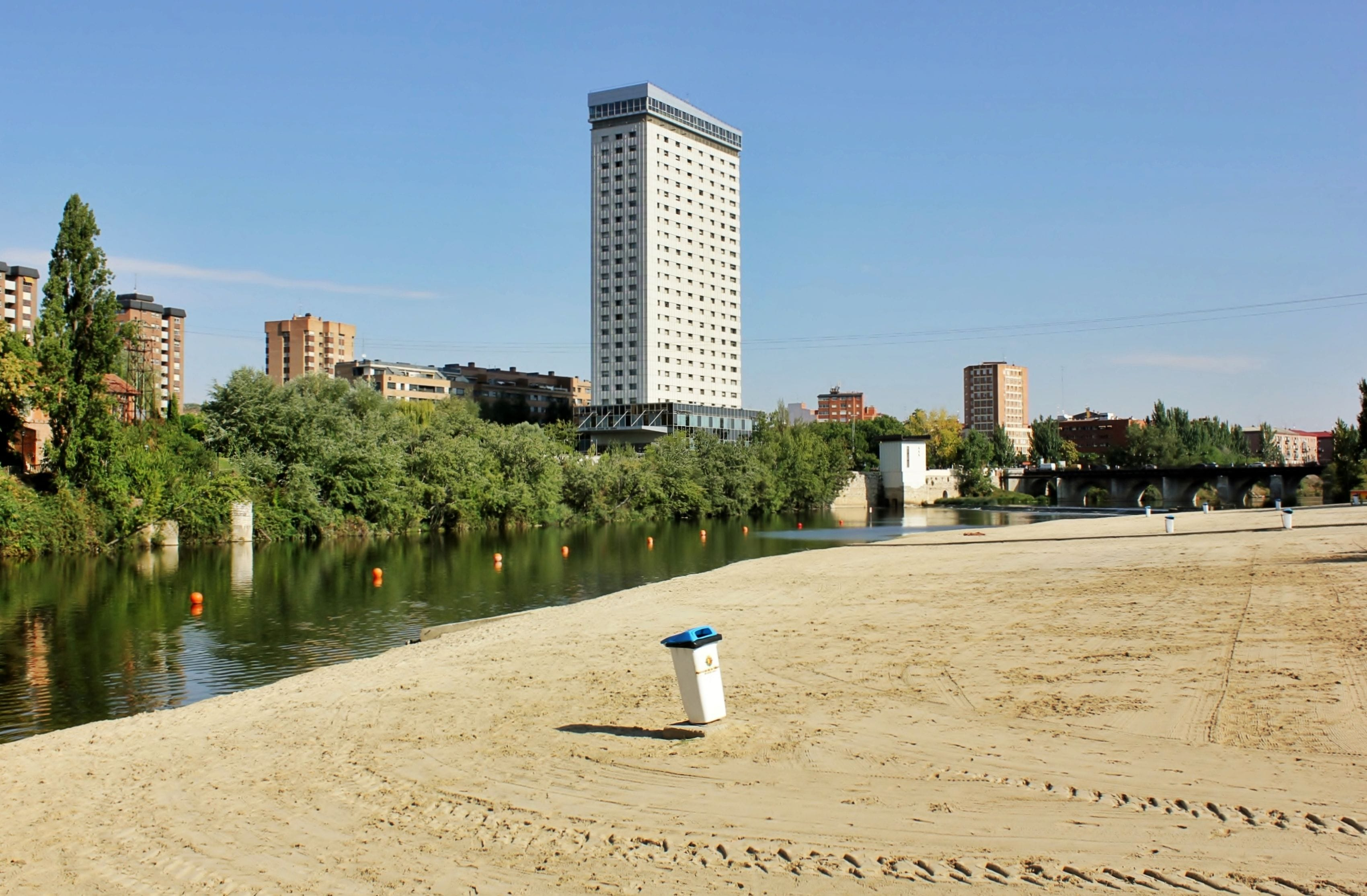 Playa de Las Moreras, Valladolid, Spain